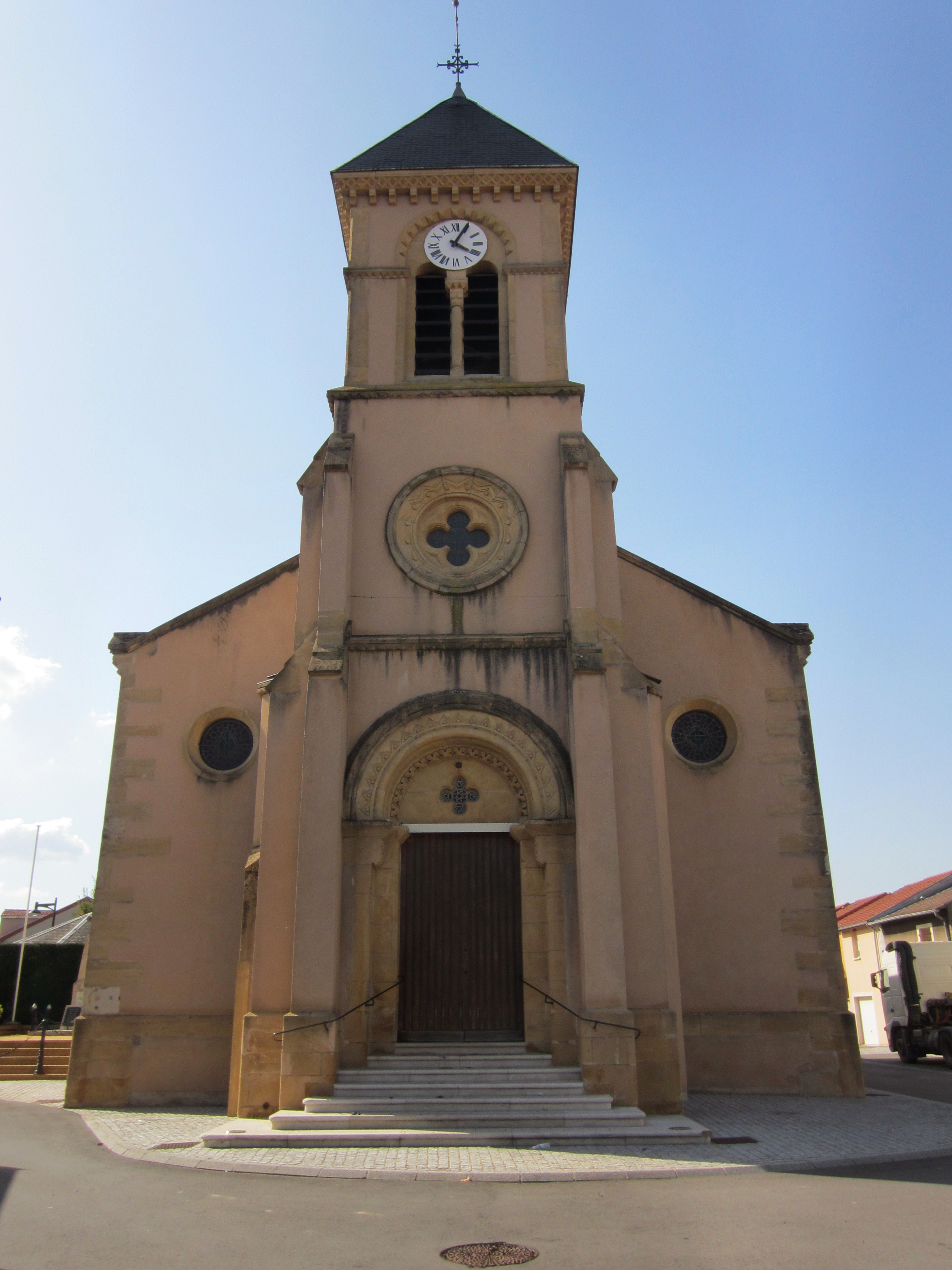 Description eglise Hauconcourt Date3 September 2011Sourcemon appareil photoAuthorAimelaimePermission(Reusing this file) eglise Hauconcourt